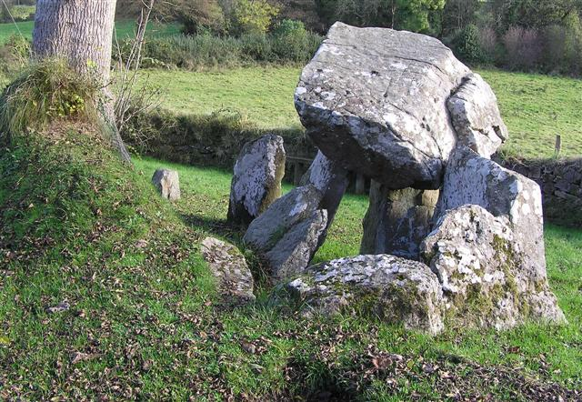 Tirnony Dolmen It used to be in the field behind the hedge, but the latter was diverted to show it off more clearly from the roadside. The capstone is supported by three of six upright stones, two of which form the portal. It is believed to be 4000-6000 year old megalithic burial tomb. One of the small non supporting stone was been badly damaged when the capstone on the dolmen has fell off at the end of April in 2010